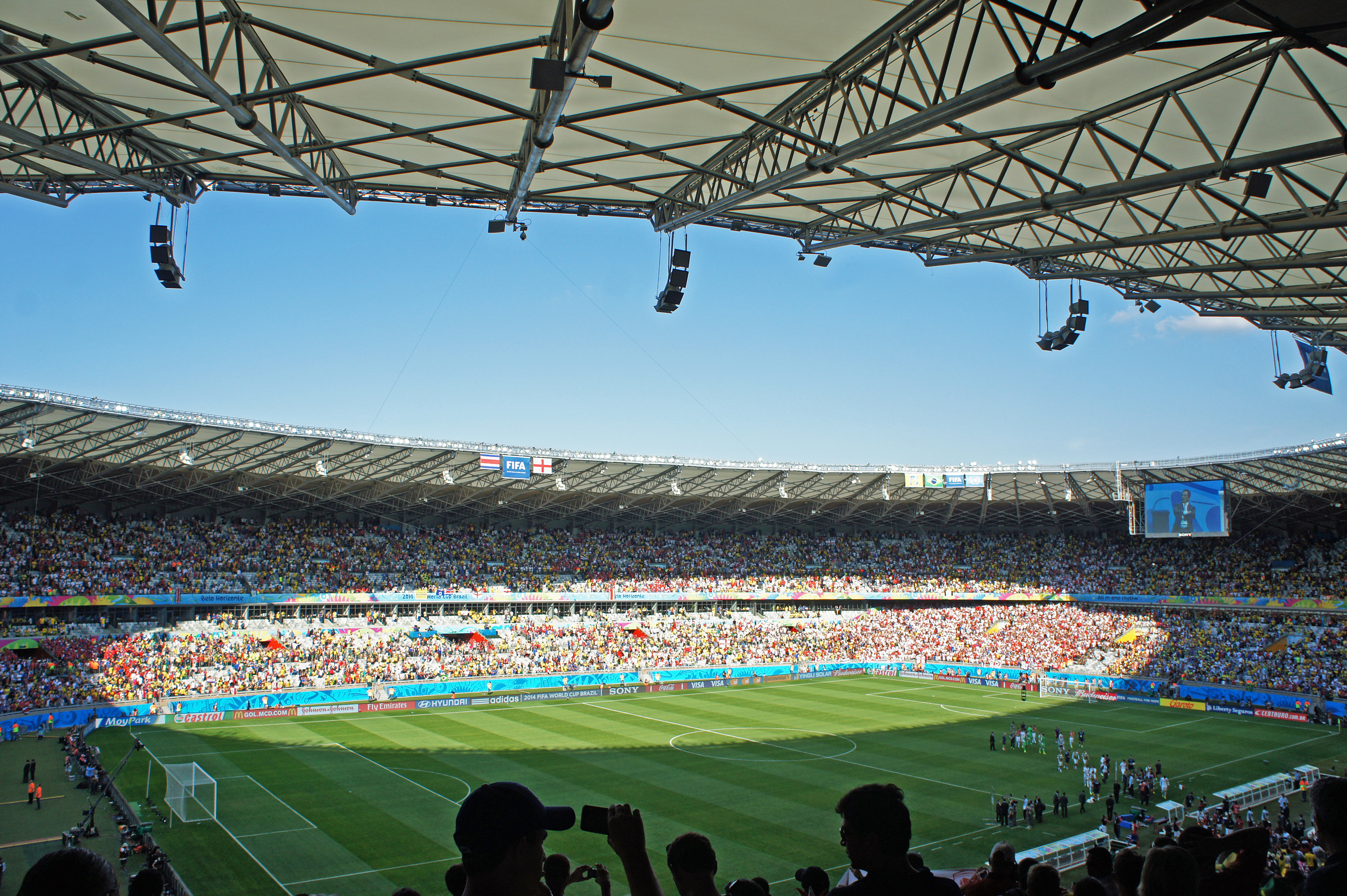 Estádio Mineirão in Belo Horizonte during the Costa Rica-England match at the 2014 FIFA World Cup, Brazil.